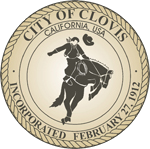 Seal of Clovis, California